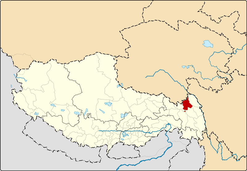 Chamdo County, Tibet Autonomous Region